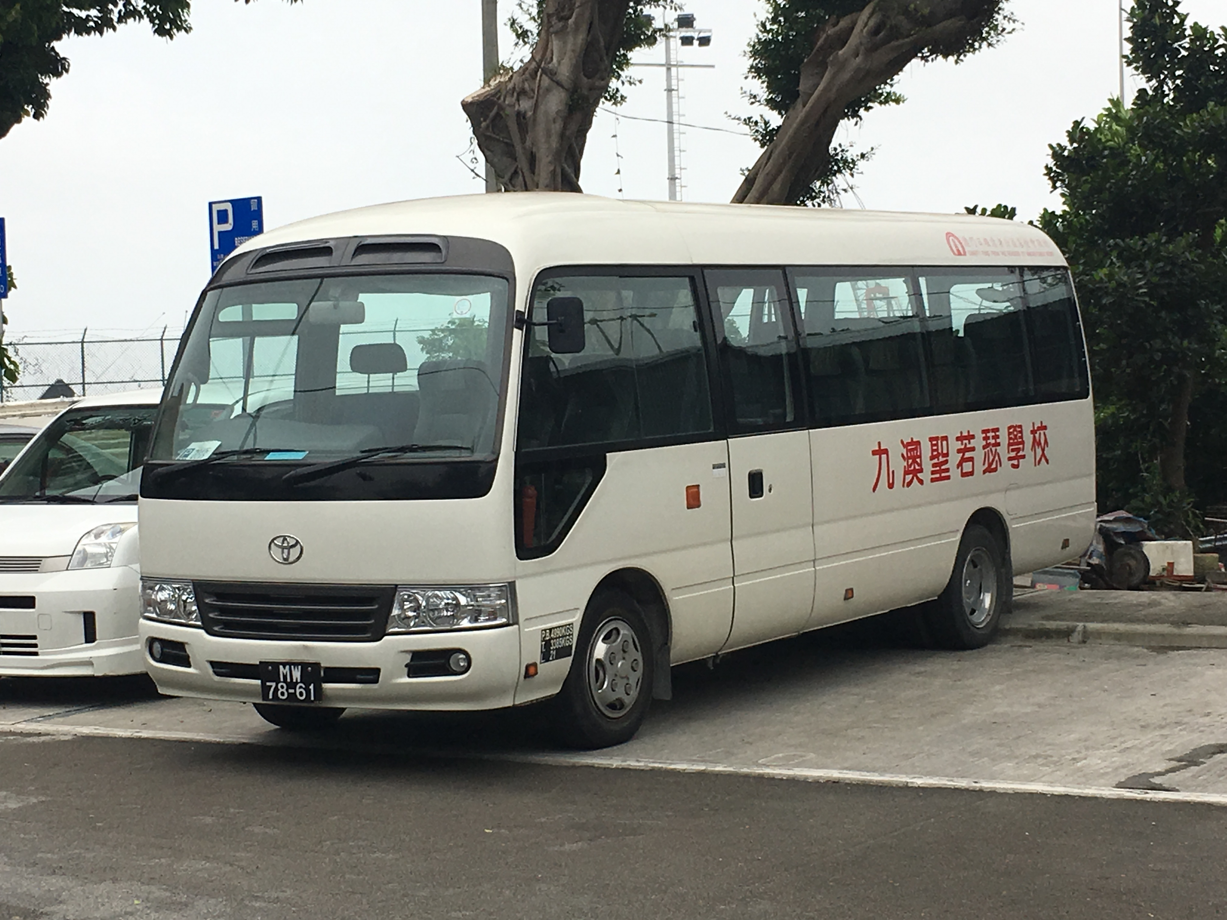 中文（香港）: This photo is taken in Ka Ho.